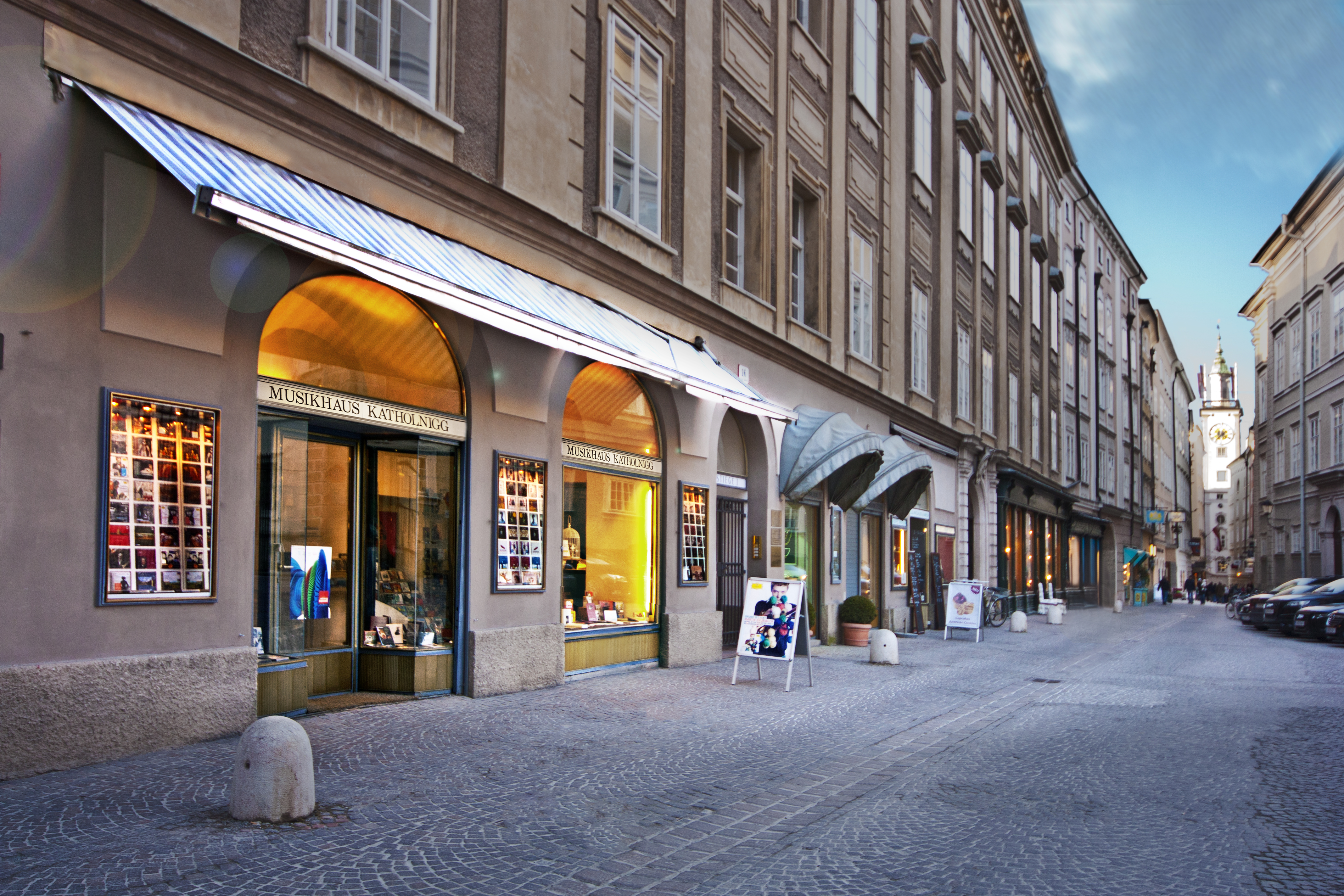 This picture is showing the Sigmund-Haffner-Gasse in Salzburg, Austria. Picture by Horst Michael Lechner